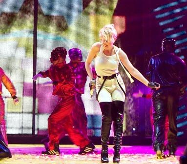 see more/full versions of my Kylie Minogue pics on